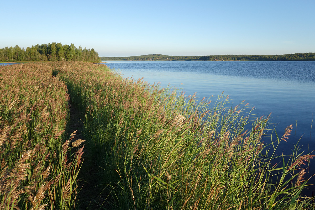 Lake Burträsket in Västerbotten, Sweden, viewed from the long island of Smedjeholmen, which is part of an esker running through the lake.